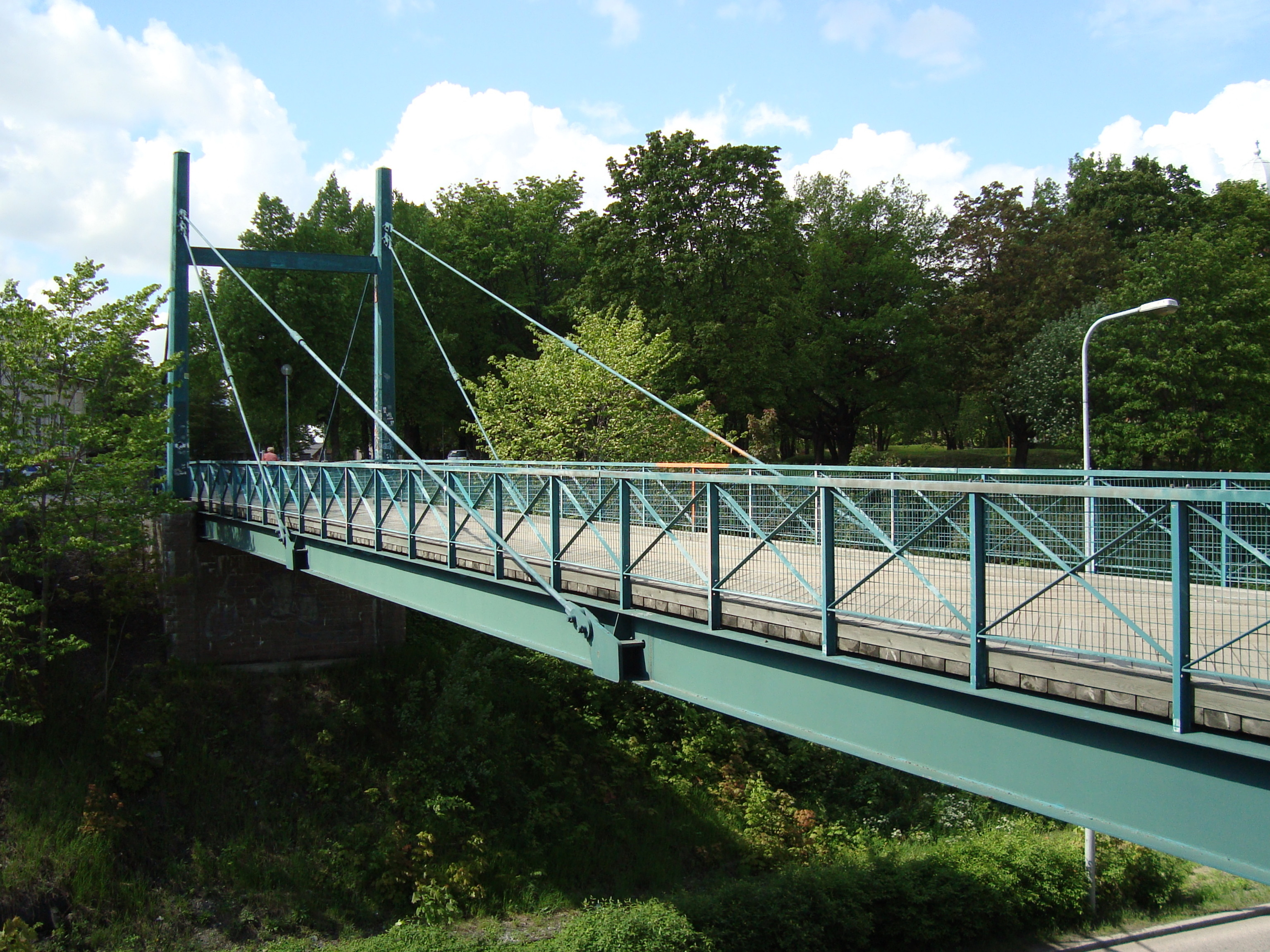 The pedestrian and bicycle cable-stayed bridge in Lappeenranta, Finland